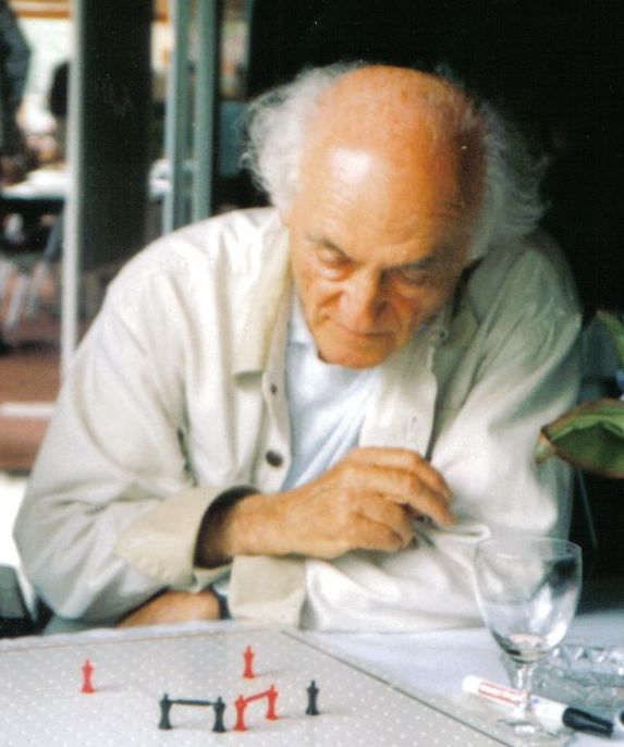 Alex Randolph playing Twixt with Christoph Endres